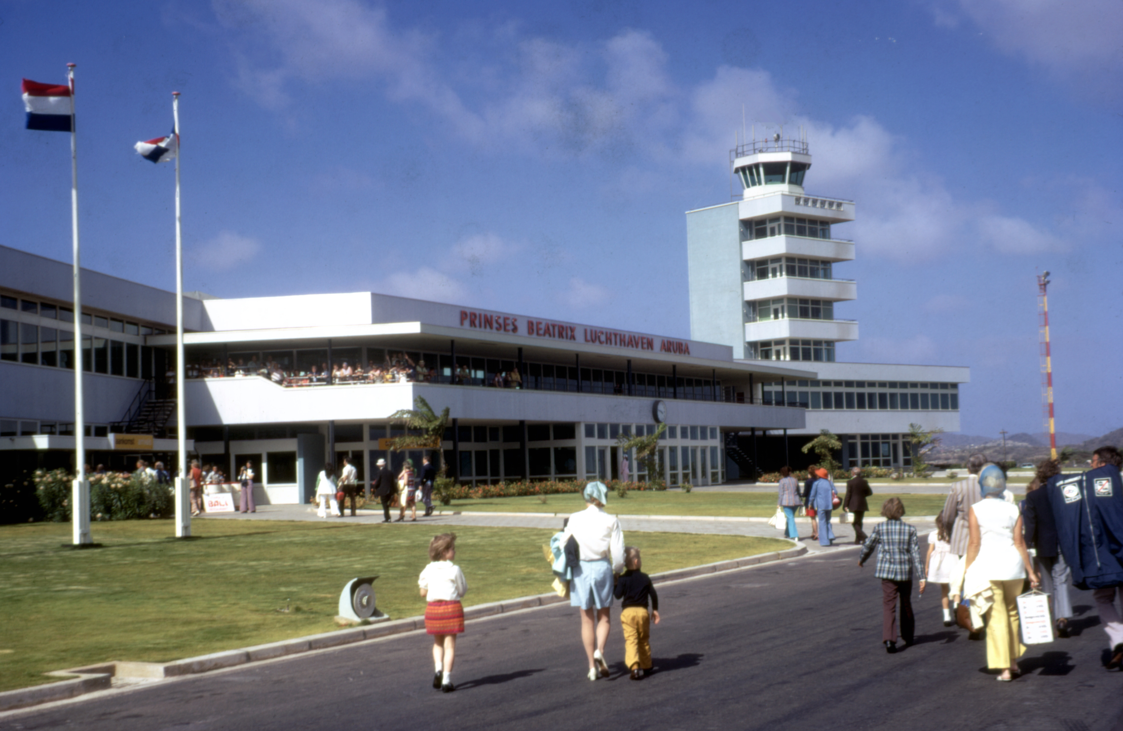 The Airport on the Island of Aruba - Circa June 1973